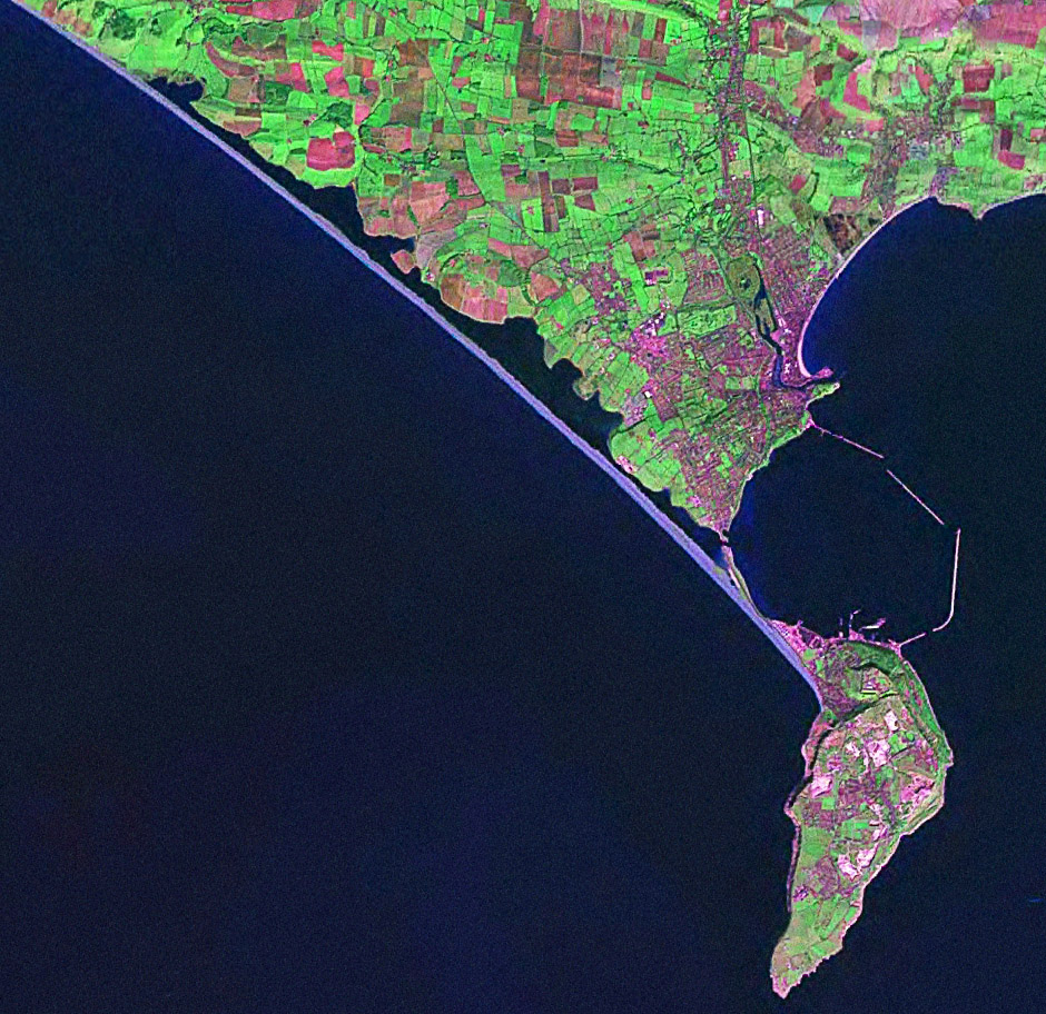 Screenshot from World Wind software displaying NASA Landsat imagery. The website says "The Landsat Global Mosaic, Blue Marble, and the USGS raster maps and images are all Public Domain." (